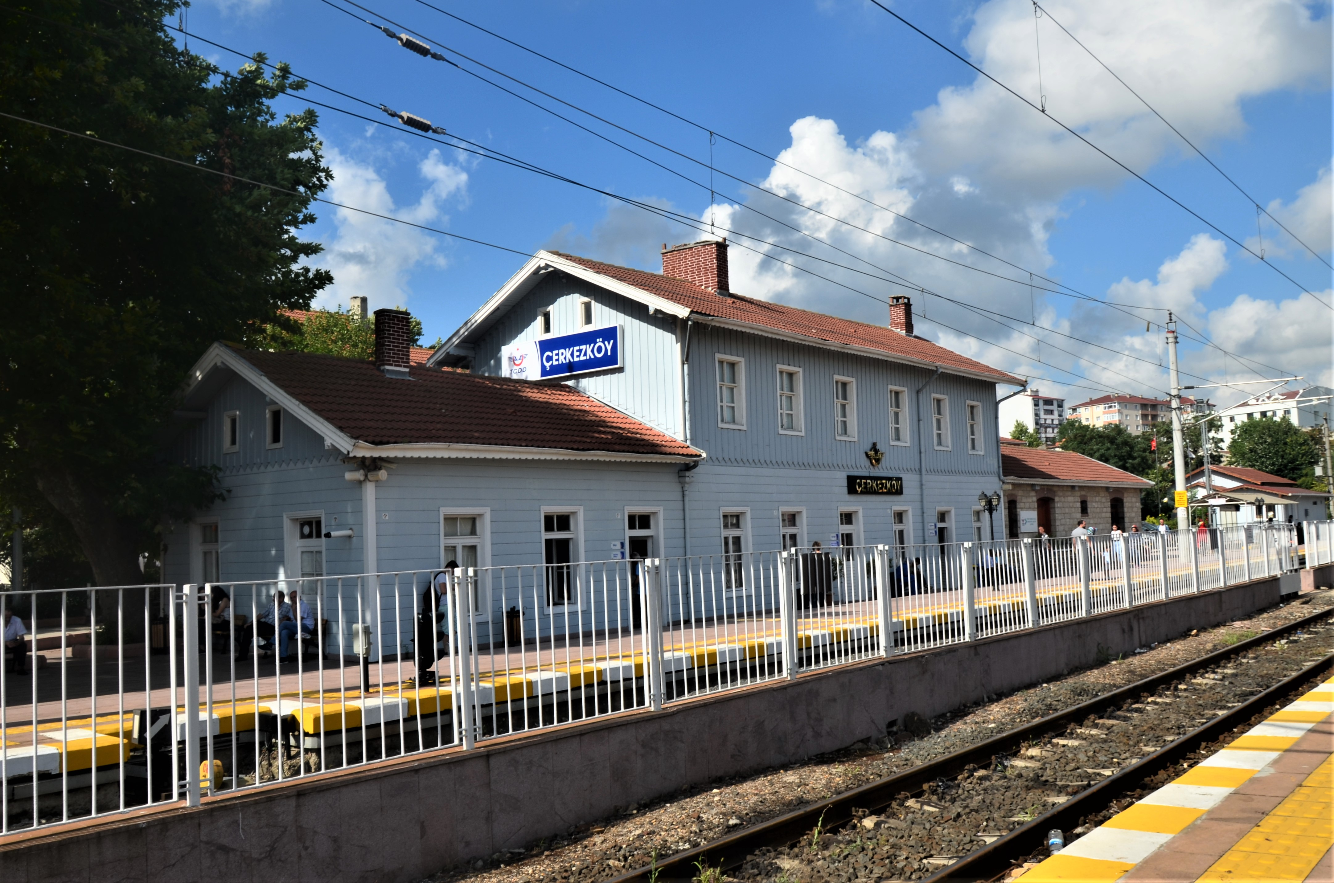 Çerkezköy train station in Tekirdağ Province, Turkey.